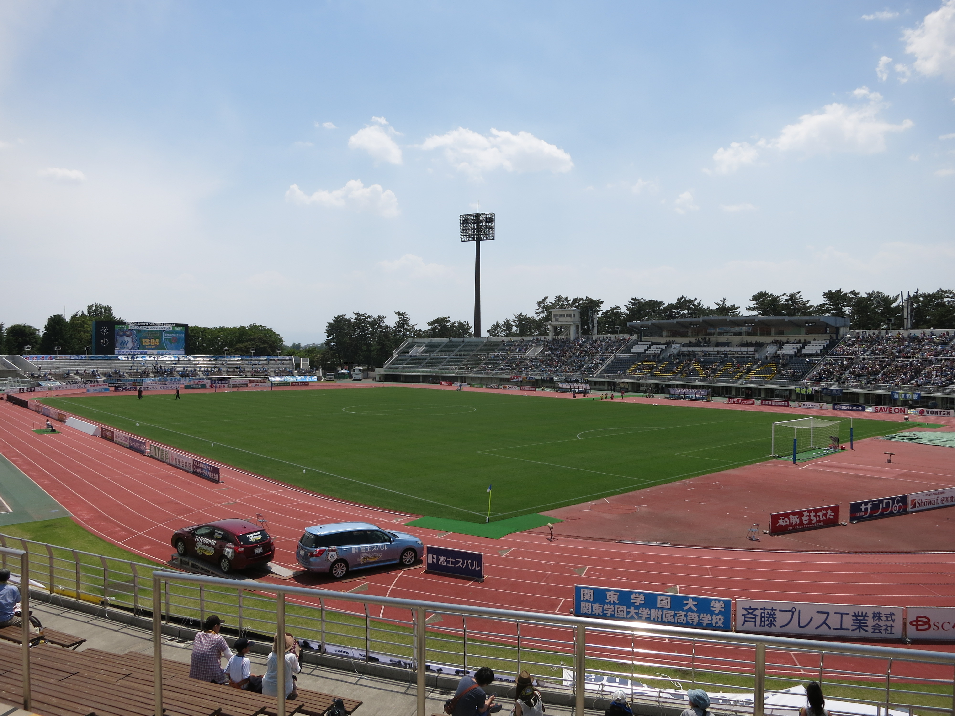 Shikishima athletics stadium